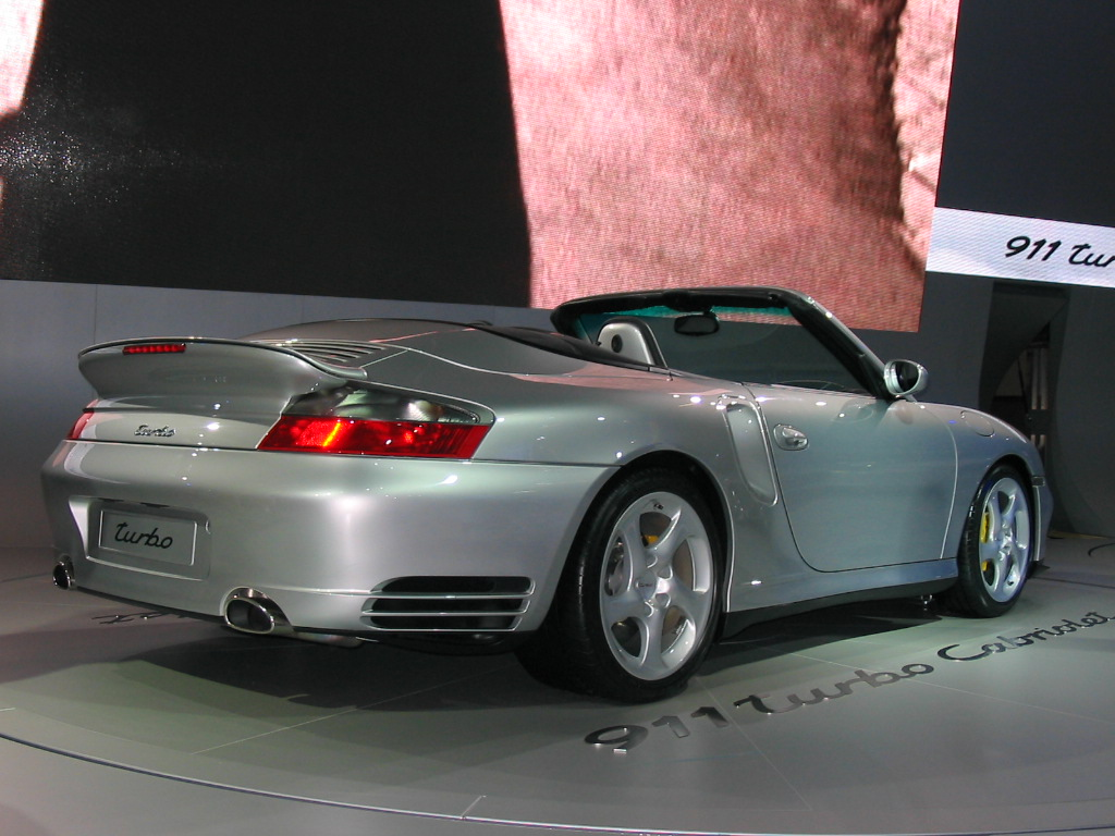 Porsche 996 Turbo Cabrio (Rearview). Photo taken at IAA.